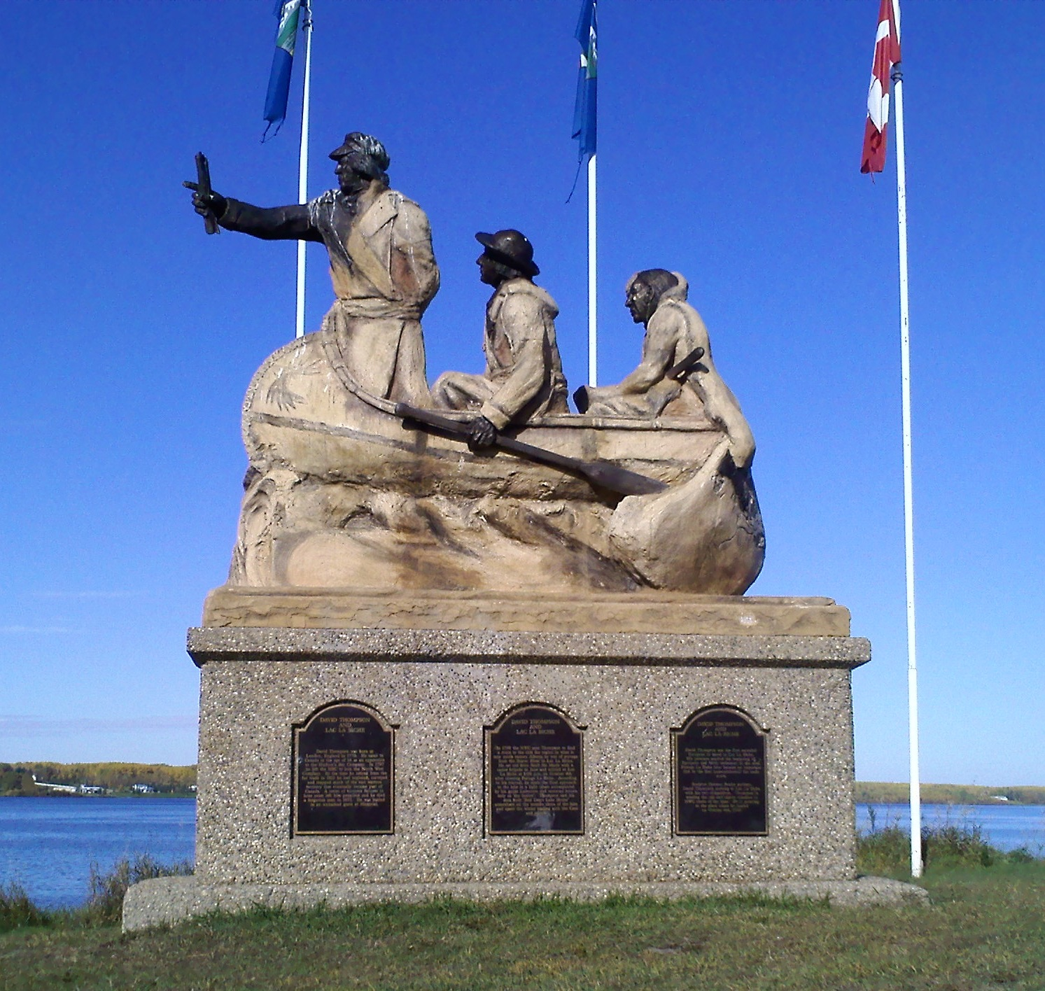 Statue of David Thompson and two guides in a light canoe, on the bank of Lac la Biche in the community of Lac La Biche, Alberta. Thompson is wearing a cap and capote common to North West Company clerks of the time. He is pointing to the place where he landed at 1:00pm (MST, approximately UTC-7) on October 4, 1798.